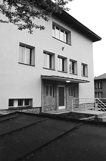 Villa Holzner Raumplan, Jiřího z Poděbrad čp. 22, Hronov, Czech Republic designed and realised by Henry Kulka in 1937. Image of symmetrical travertine north facing façade. Symmetrical fenestration, plaster rendering and symmetrical amber travertine entrance. White stair railing not original. The commissioner Mr. Holzner owned the Holzner textile factory in Hronov. The Holzner factory was one of Hronov's larger employers before its aryanisation ( under Nazism during World War II. The structure is under a Czech Republic cultural preservation order and was partially restored in the early 2000's.